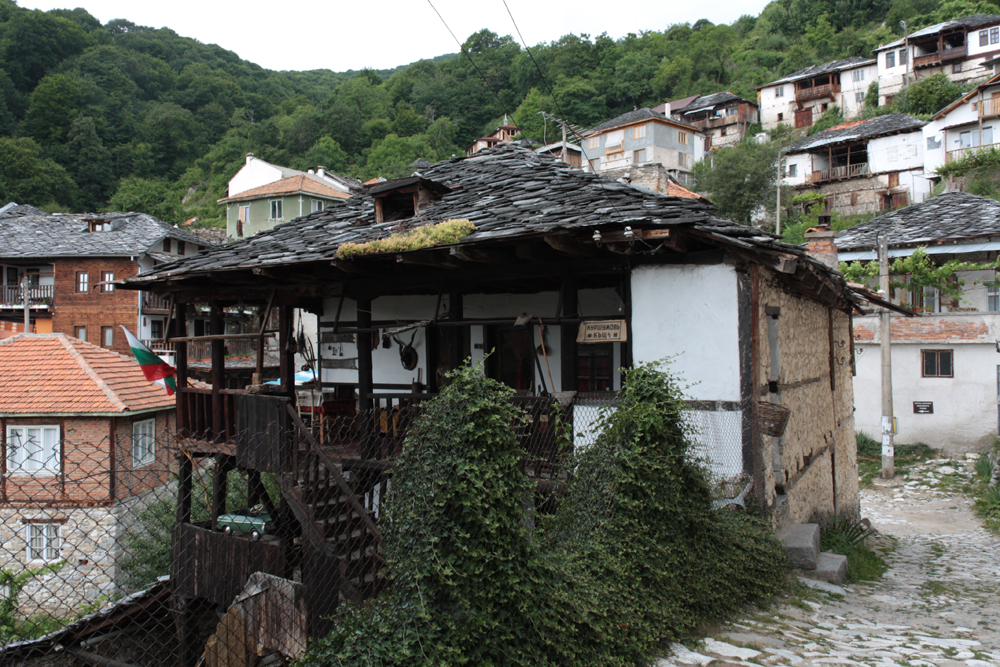 Old Kurshumov house in Delchevo